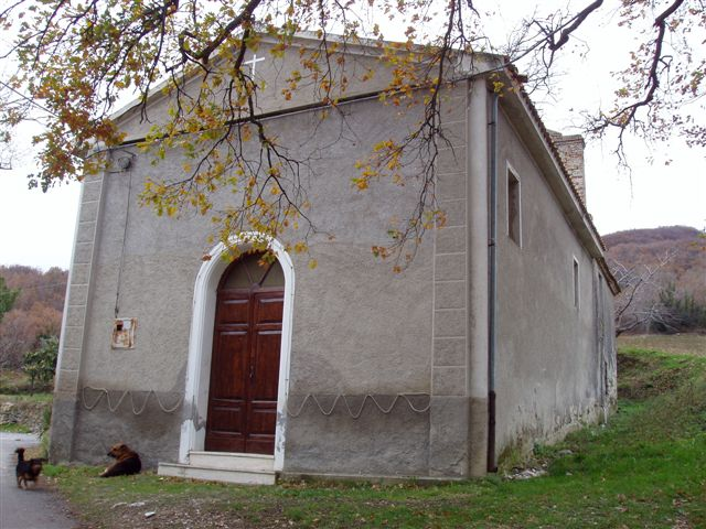 Colle Sansonesco Church